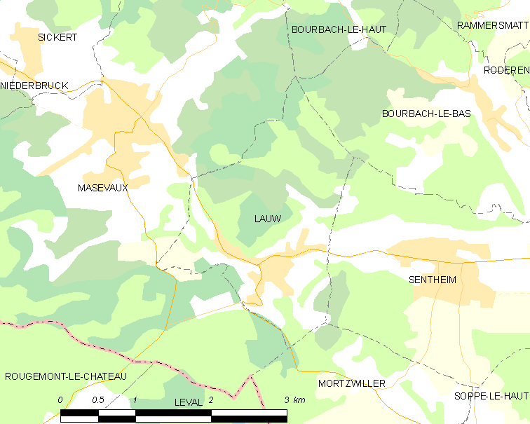 Map of French municipality